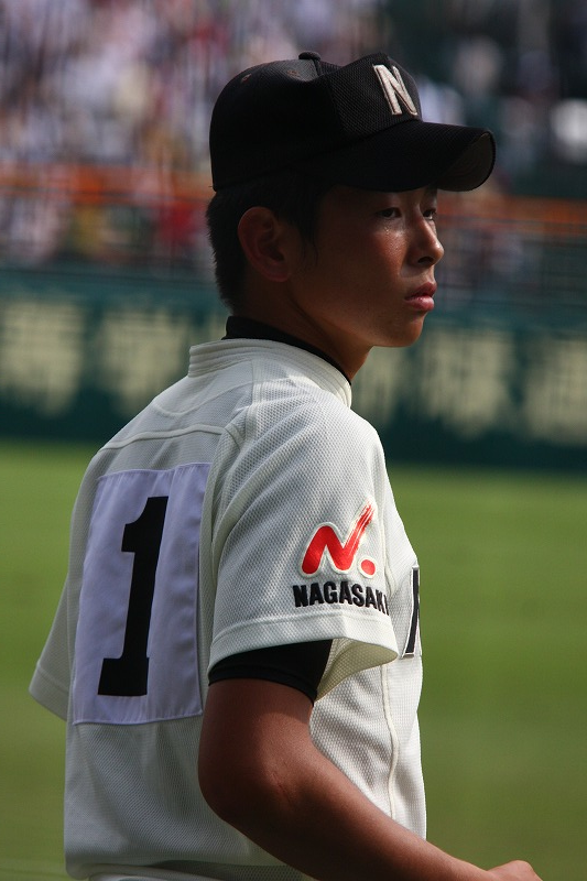 Daichi Ohsera, pitcher of the Nagasaki Nichidai High School, at Hanshin Koshien Stadium.